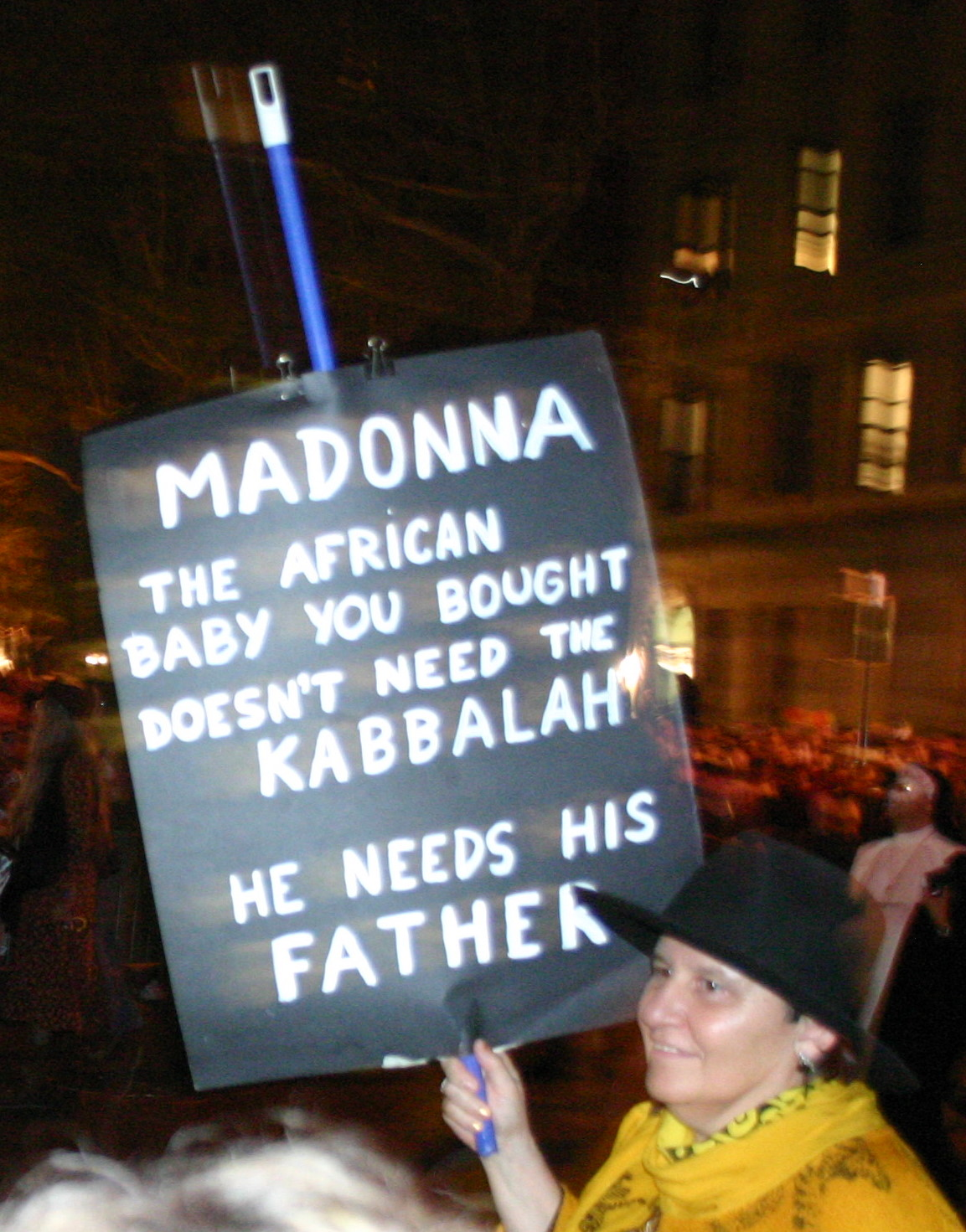 A New Yorker protests Madonna adopting David Banda on Halloween.Halloween-Parade feat. Madonna-Protest